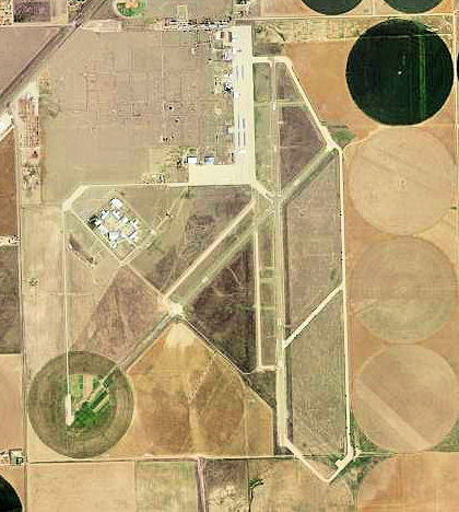 USGS digital orthophoto of Dalhart Municipal Airport in Texas